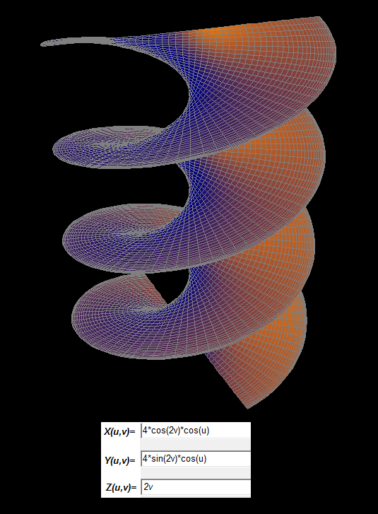 Έλικας διπλός